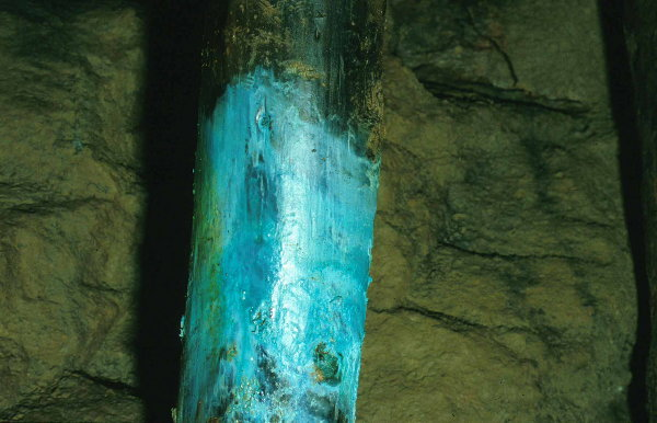 Hydrowoodwardite on mine prop Locality: St. Christoph Mine, Bärenhecke bei Glashütte, Erzgebirge, Saxony, Germany